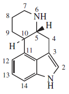 Ergoline structure